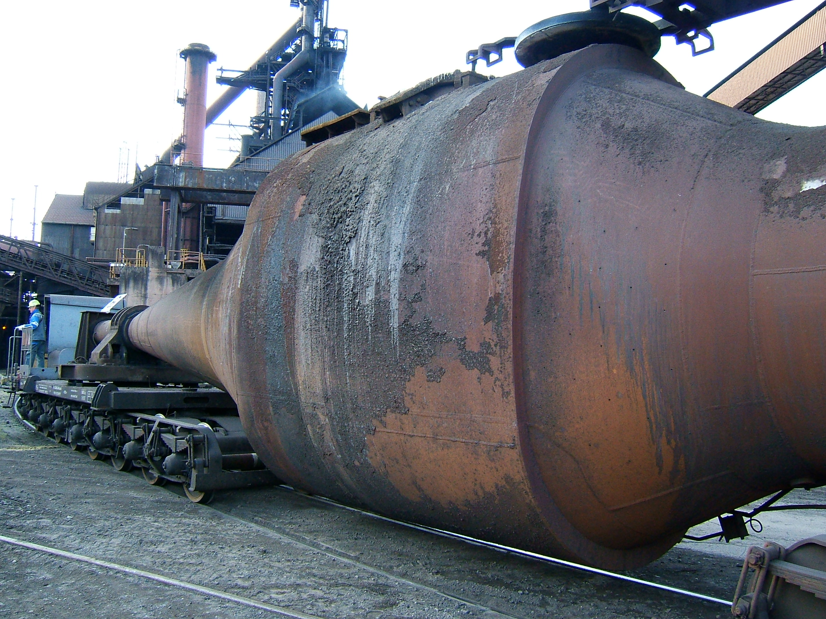 Pig iron car